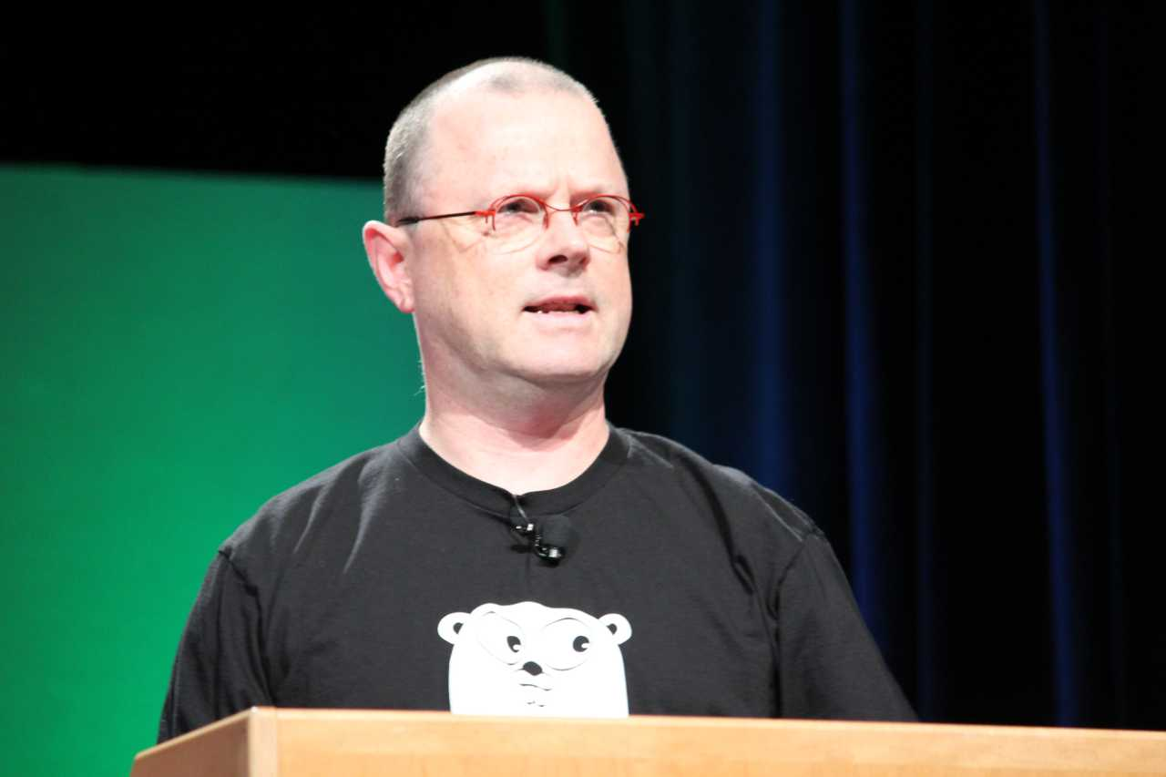 Rob Pike giving a keynote at OSCON 2010